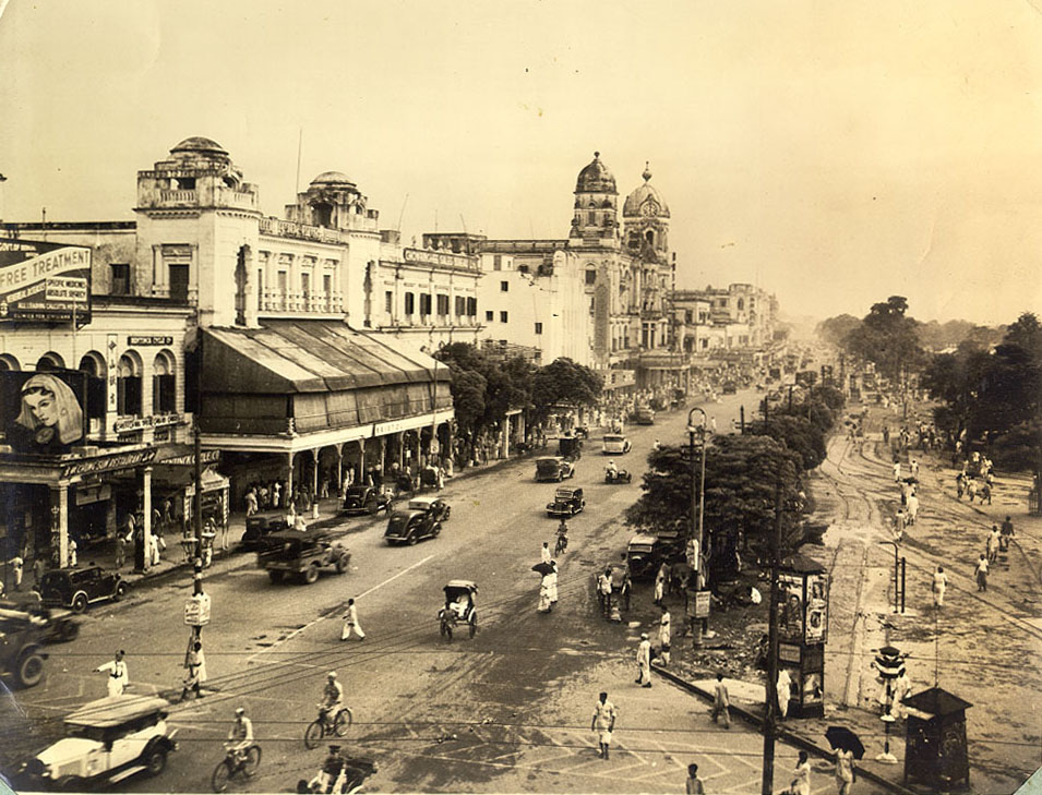 A photo of Chowringhee Square, Kolkata from 1945 GI photo collection. The original description is "Chowringhee Street---Calcutta's main throughfare, an amazing parade of fascinating sights and sounds. Every soldier who has trod its length retains memories of one of the most colorful and interesting streets." in the world.